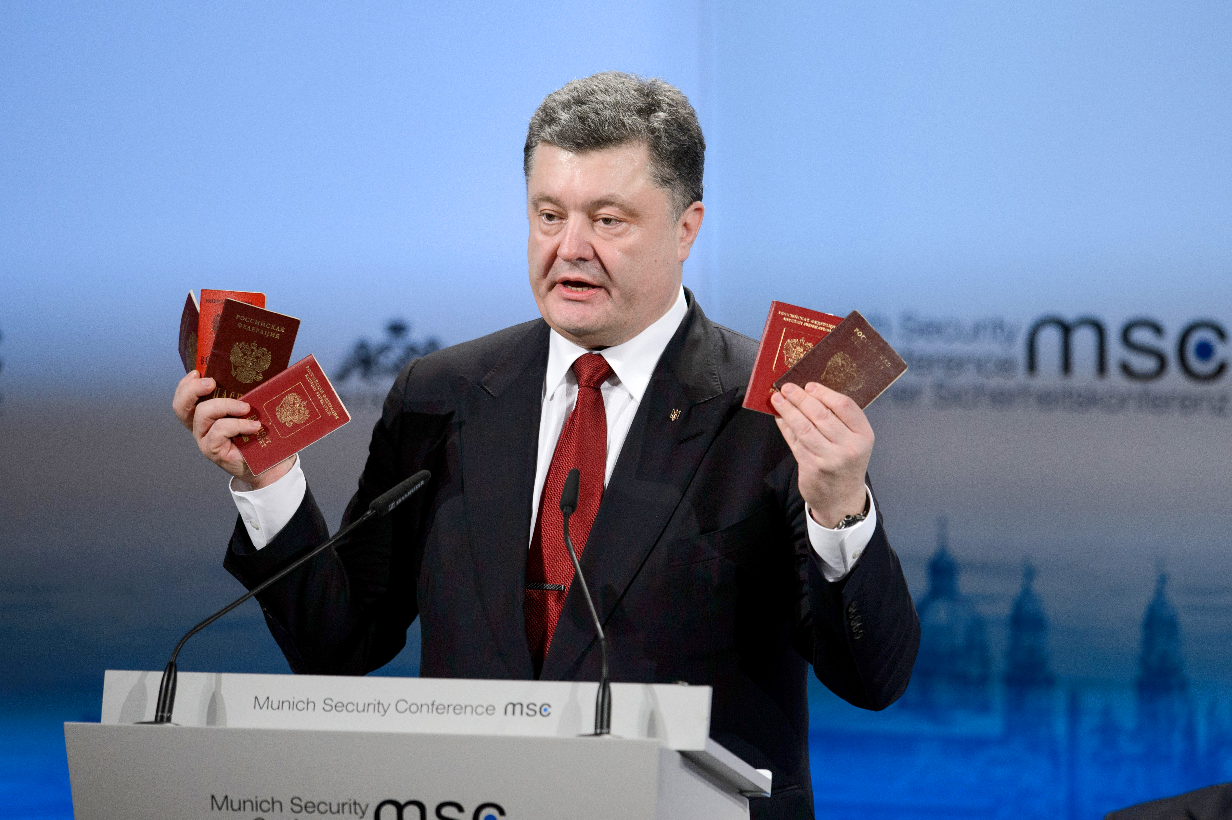 51st Munich Security Conference 2015: Remarks by Petro Poroshenko